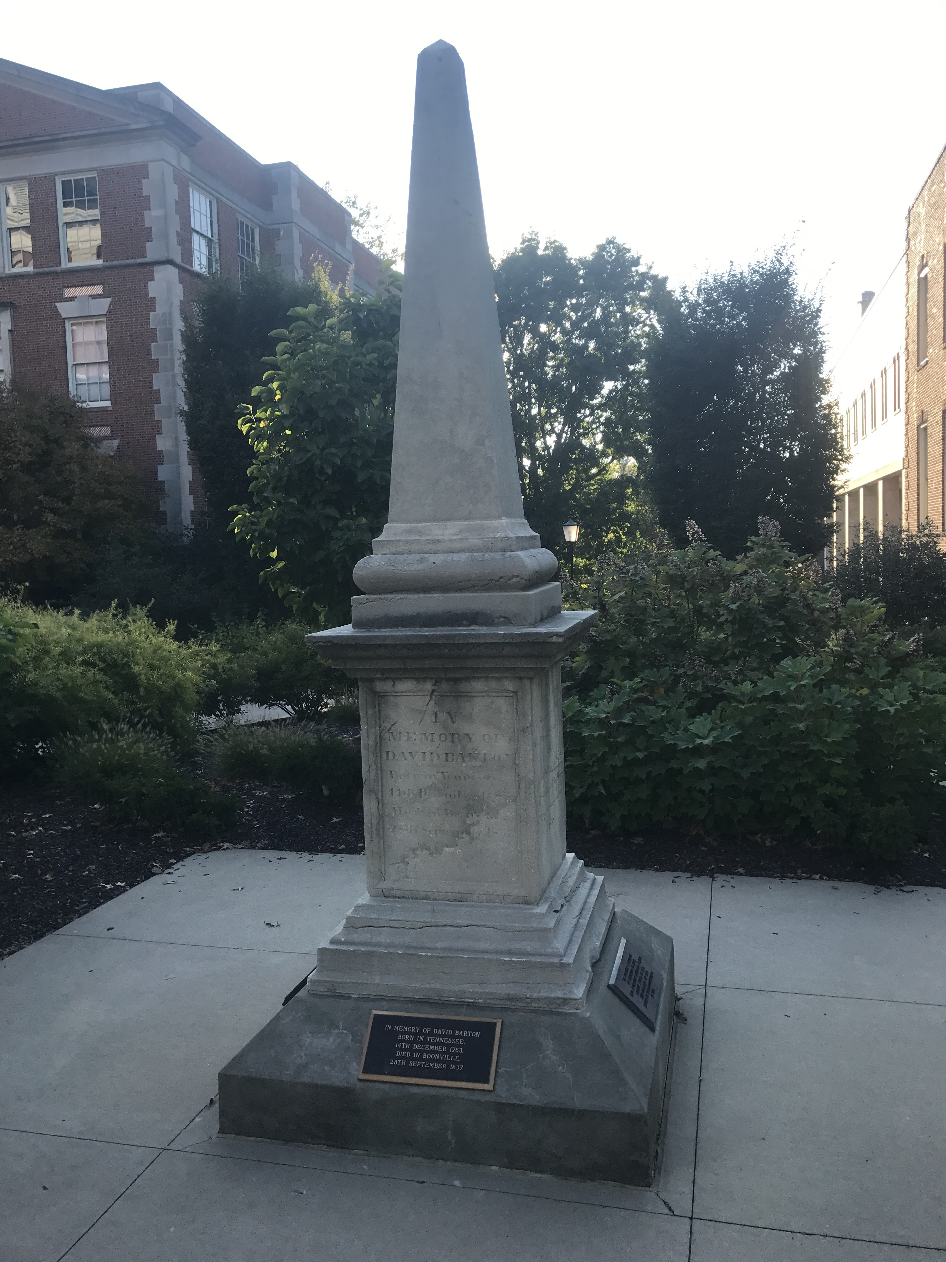 East side of the barton marker at the University of Missouri l